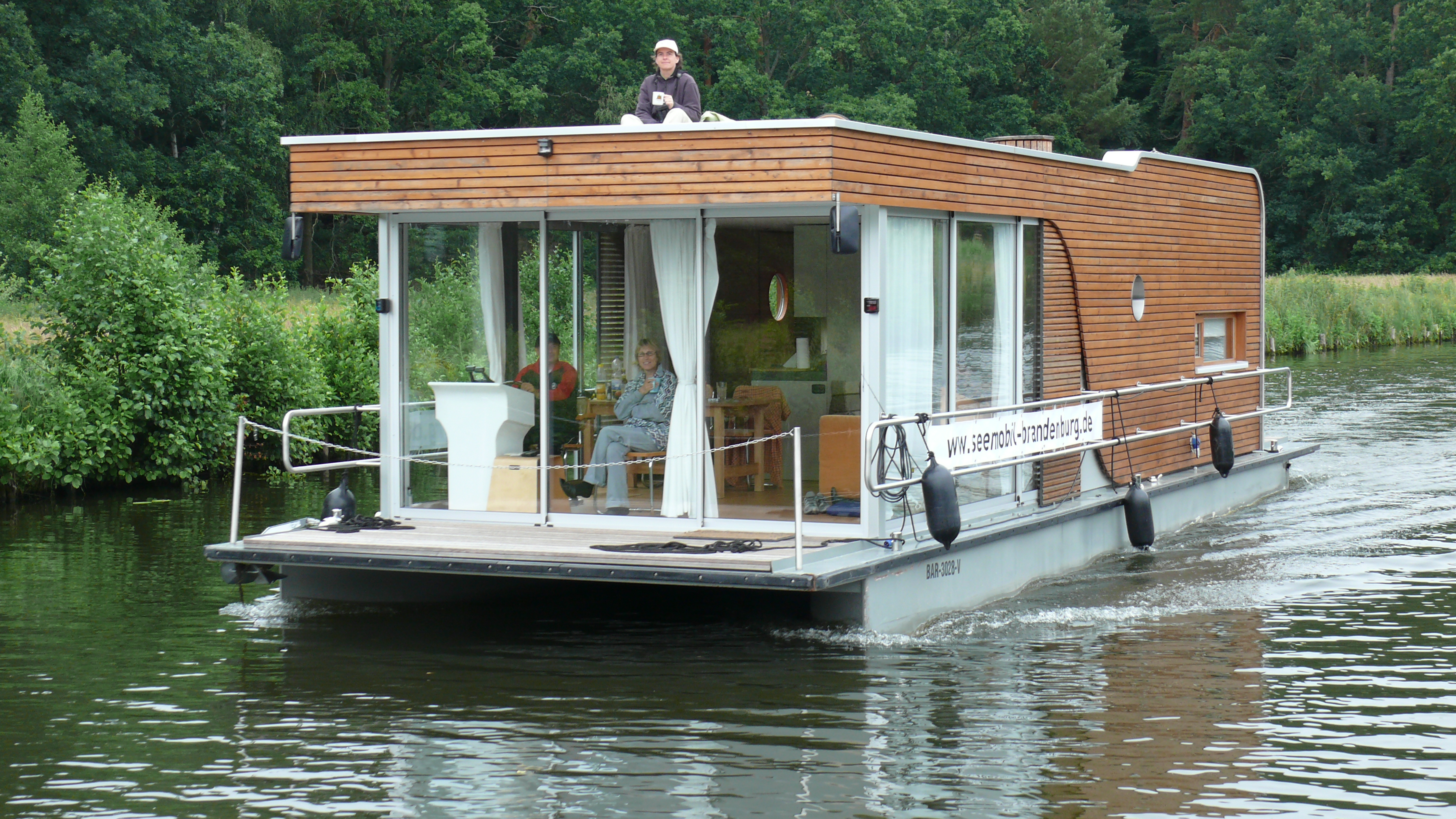 Turist boathause, Mecklenburg Lake District, Germany